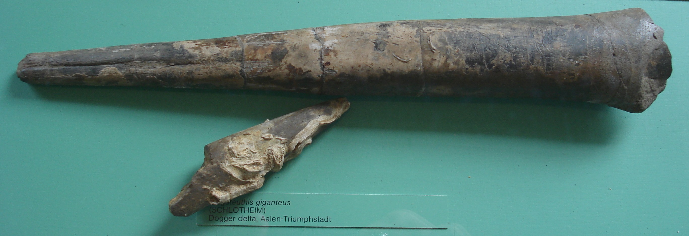 fossil of Megateuthis gigantea